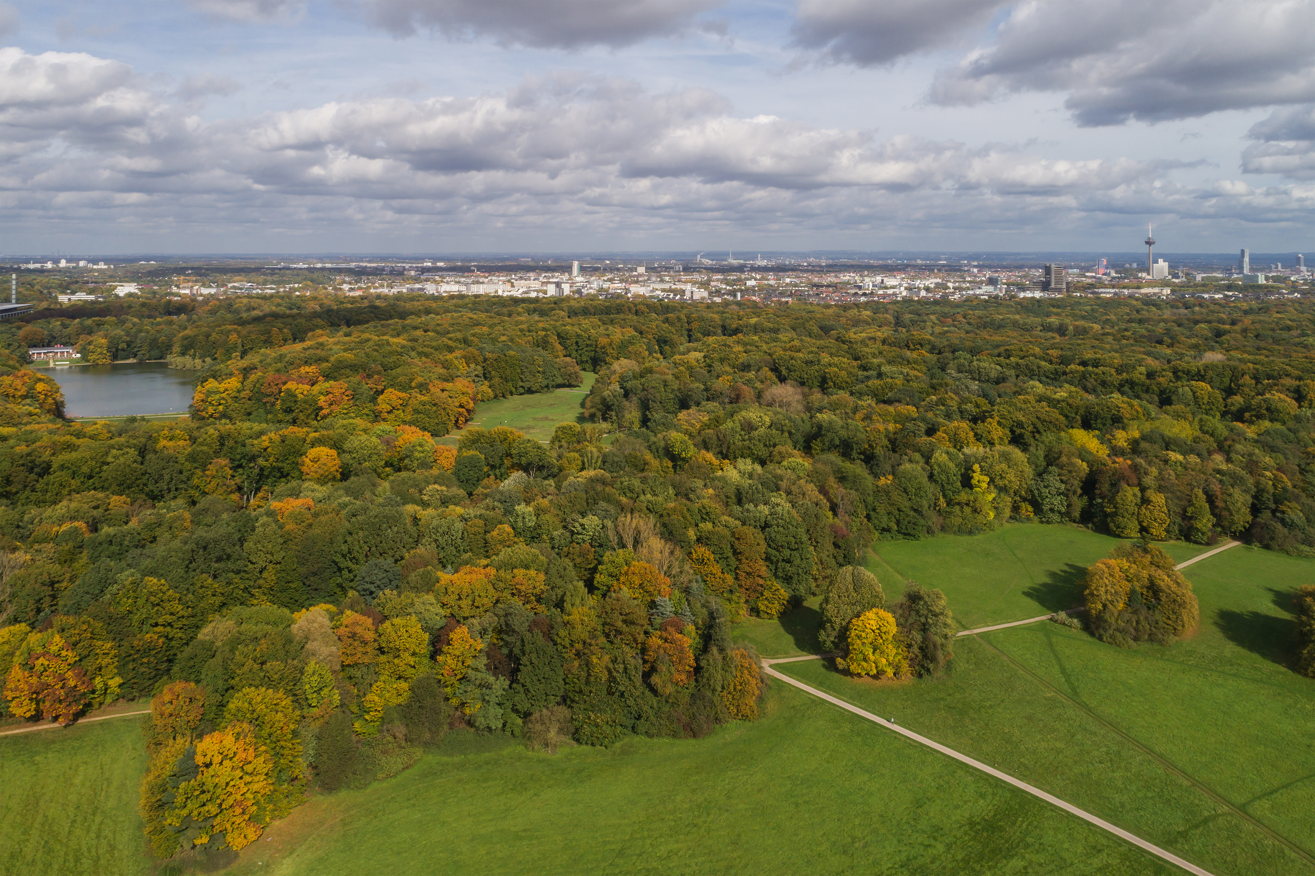 Aerial photo of the City Forest in Cologne (Germany)